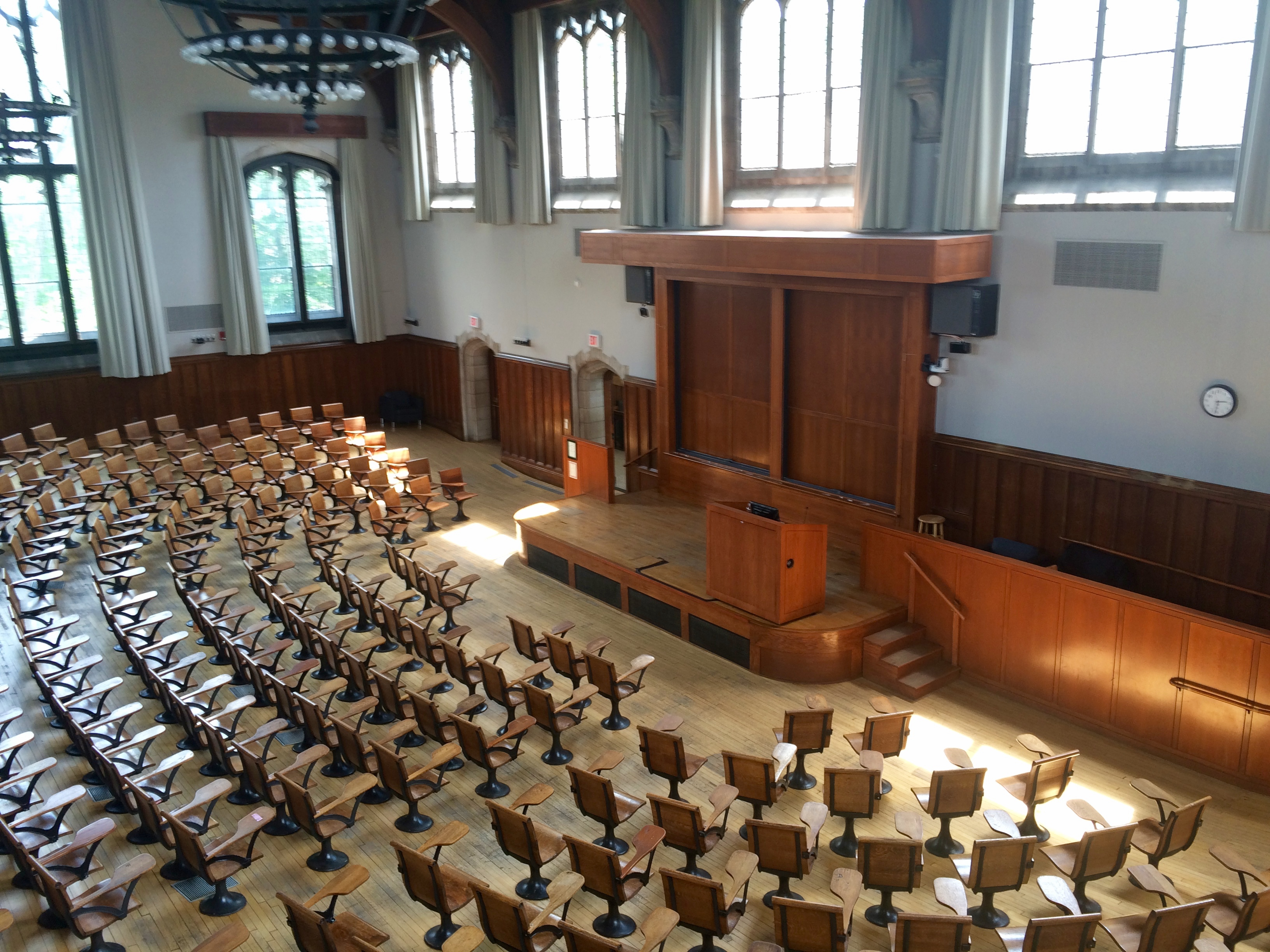 McCosh 50 lecture hall, the largest on the campus of Princeton University.